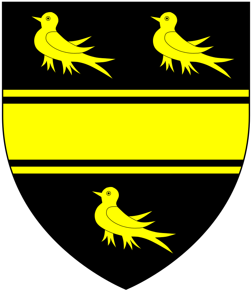 Arms of Smith of Exeter: Sable, a fess cotised between three martlets or (Pole, Sir William (d.1635), Collections Towards a Description of the County of Devon, Sir John-William de la Pole (ed.), London, 1791, p.502). As seen on 1714 mural monument to Sir Bevil Grenville (d.1643), husband of Grace Smith, in Kilkhampton Church, Cornwall